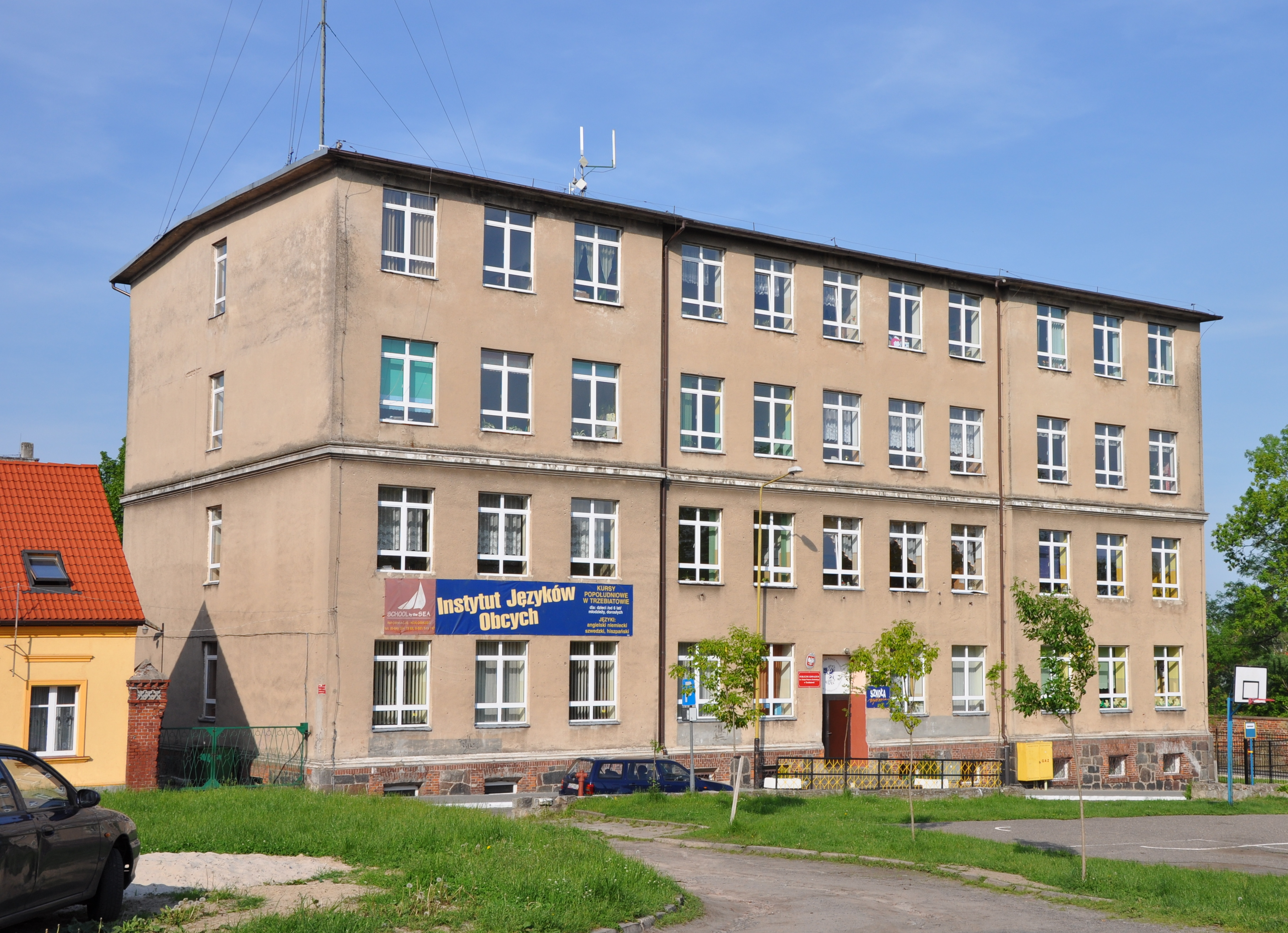 West Pomeranian Dukes' Junior High School in Trzebiatów, Poland